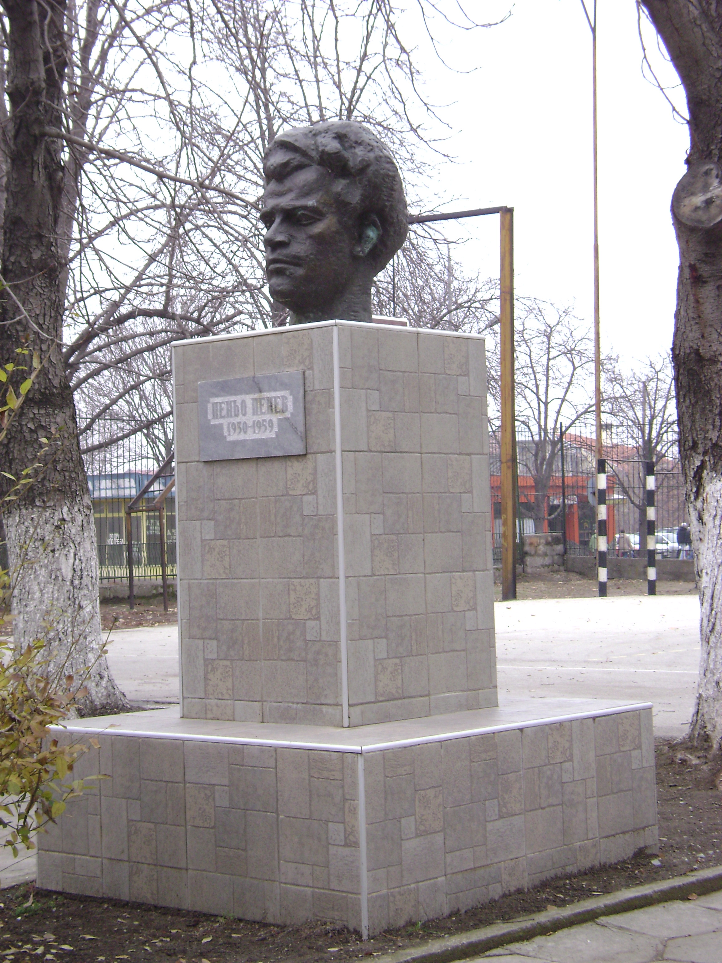 Monument of Penyo Penev